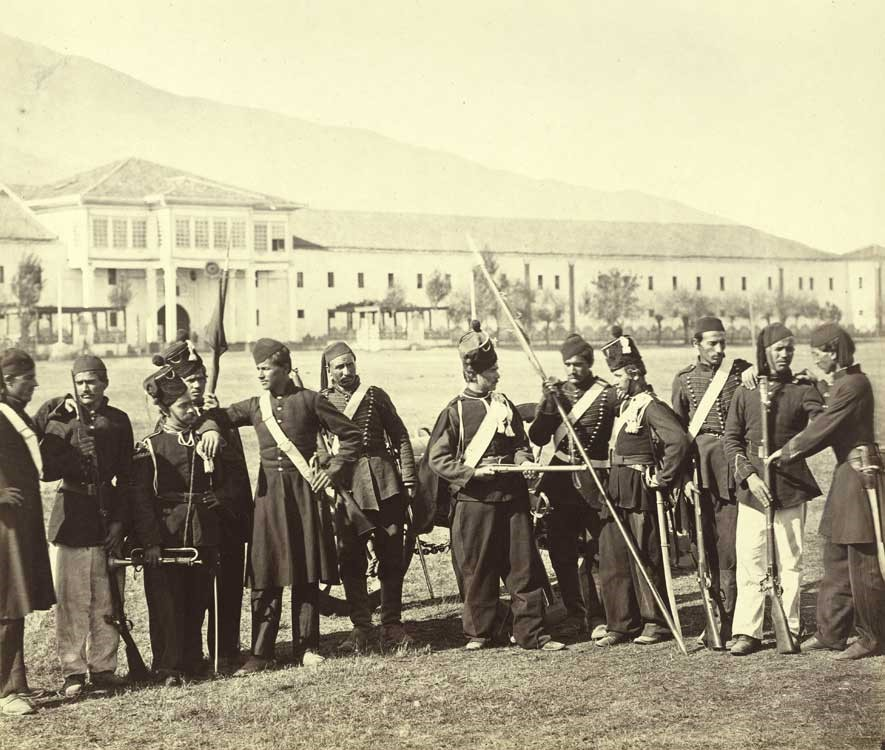 Josef Székely VUES IV 41089 Monastir [Bitola]: group of Ottoman soldiers. October 1863